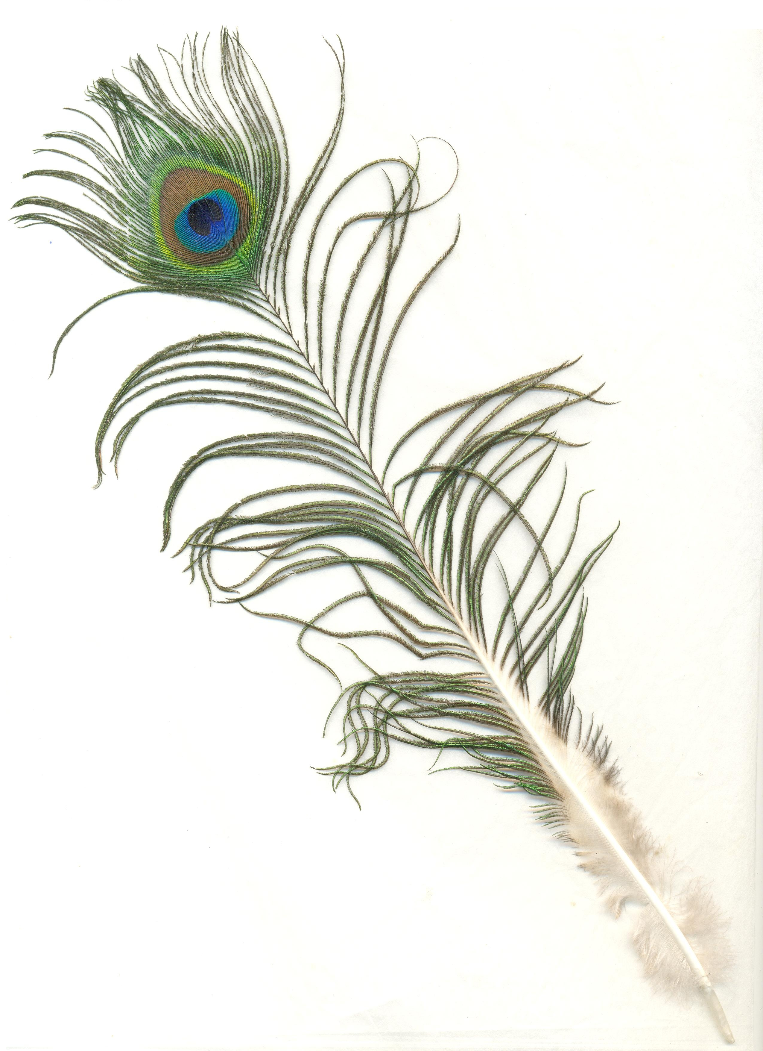 Feather of a male peafowl